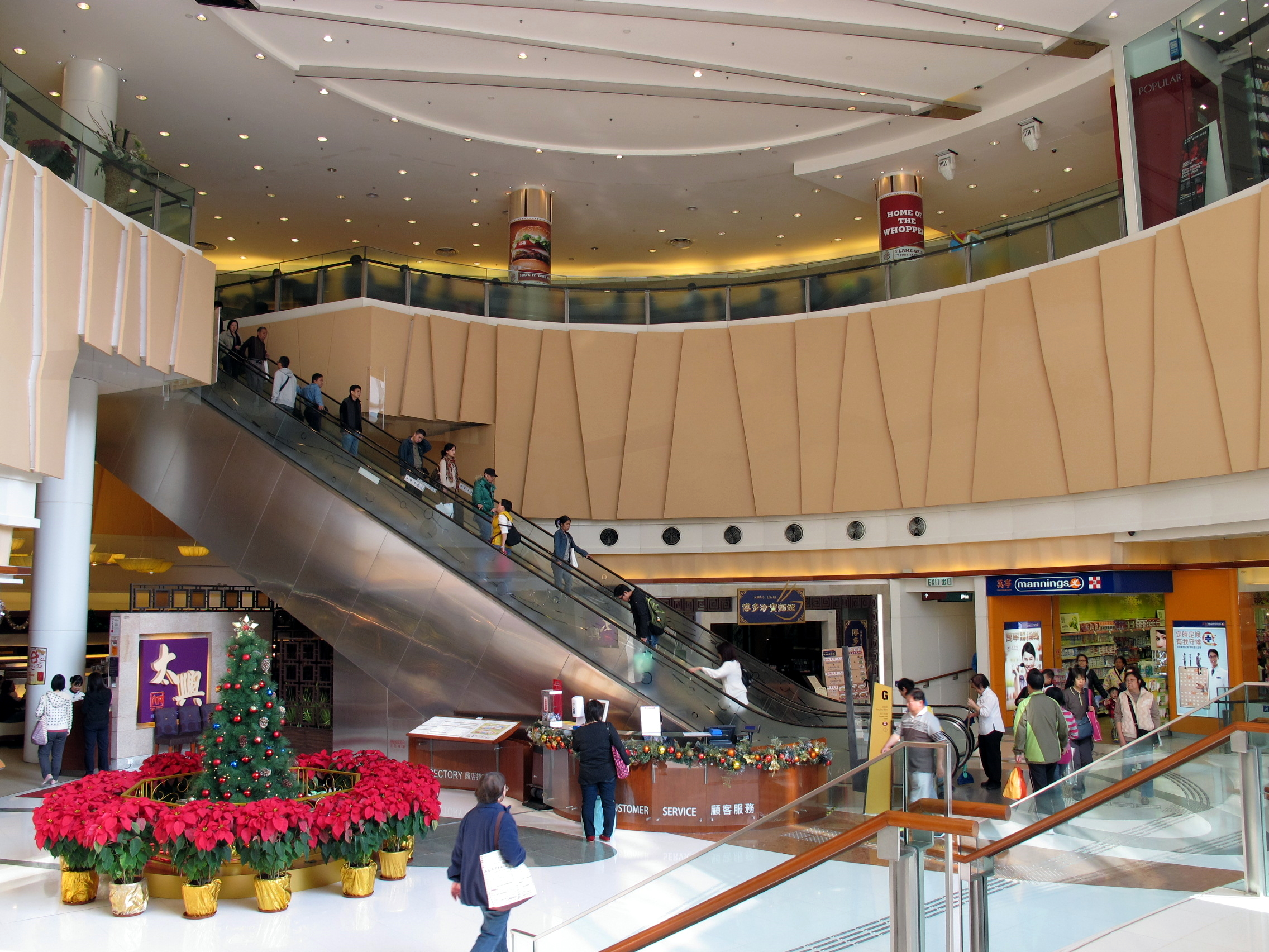 The Edge Enterance Void